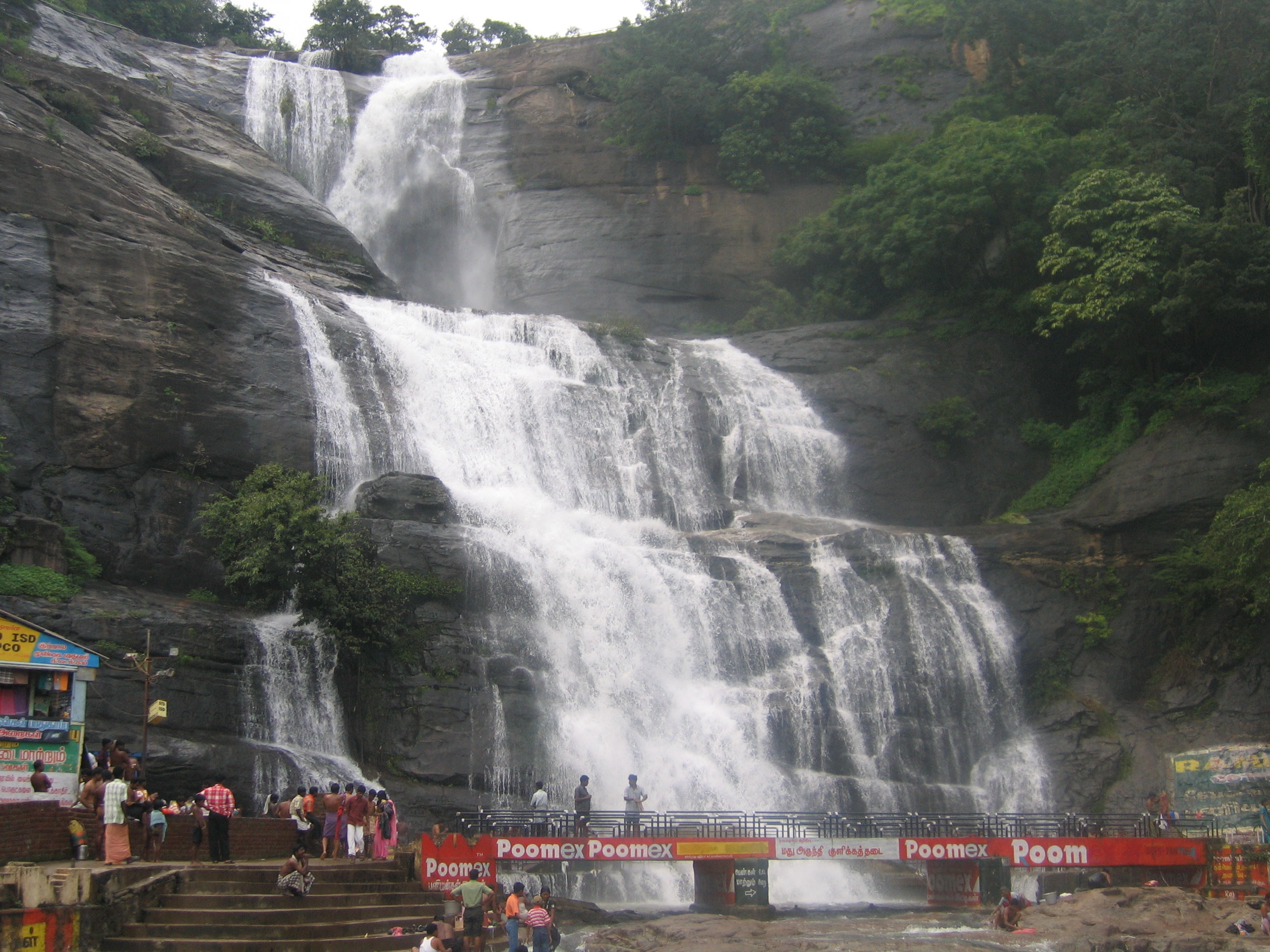 Photo of Mainfalls captured and uploaded by Mohamed Rabbani